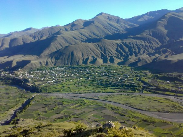 View of a mountain village Zrikh in Dagestan, Russia.